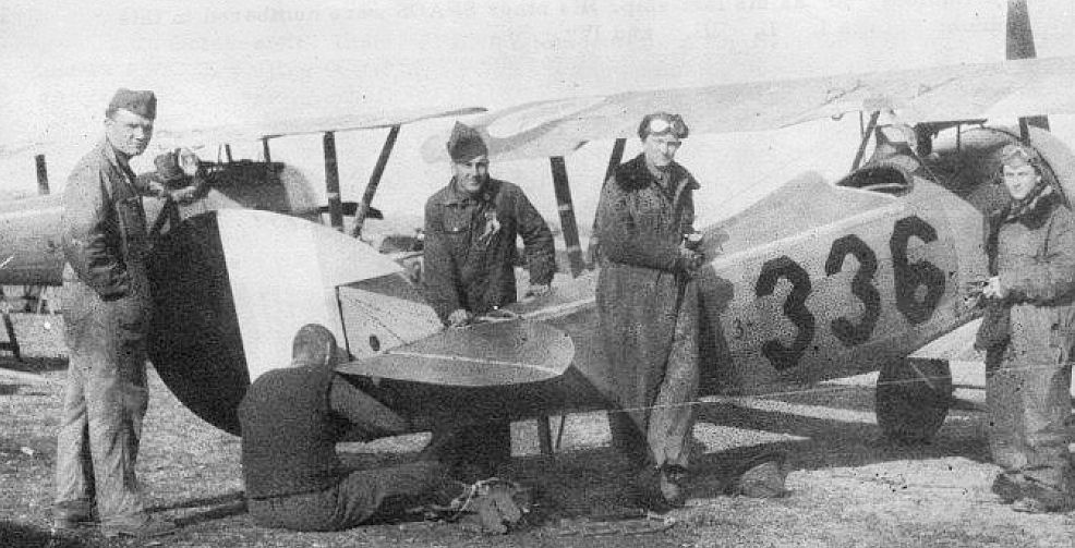 22d Aero Squadron Captain Arthur Raymond Brooks at the 3d Air Instructional Center, Issoudun Aerodrome, France, just after a training flight with ground crew. Brooks is at extreme right of the photograph